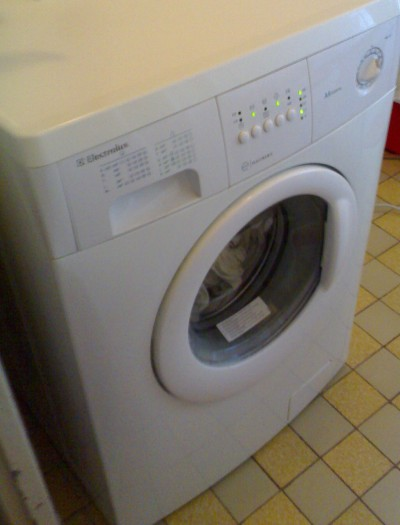 Electrolux washing machine